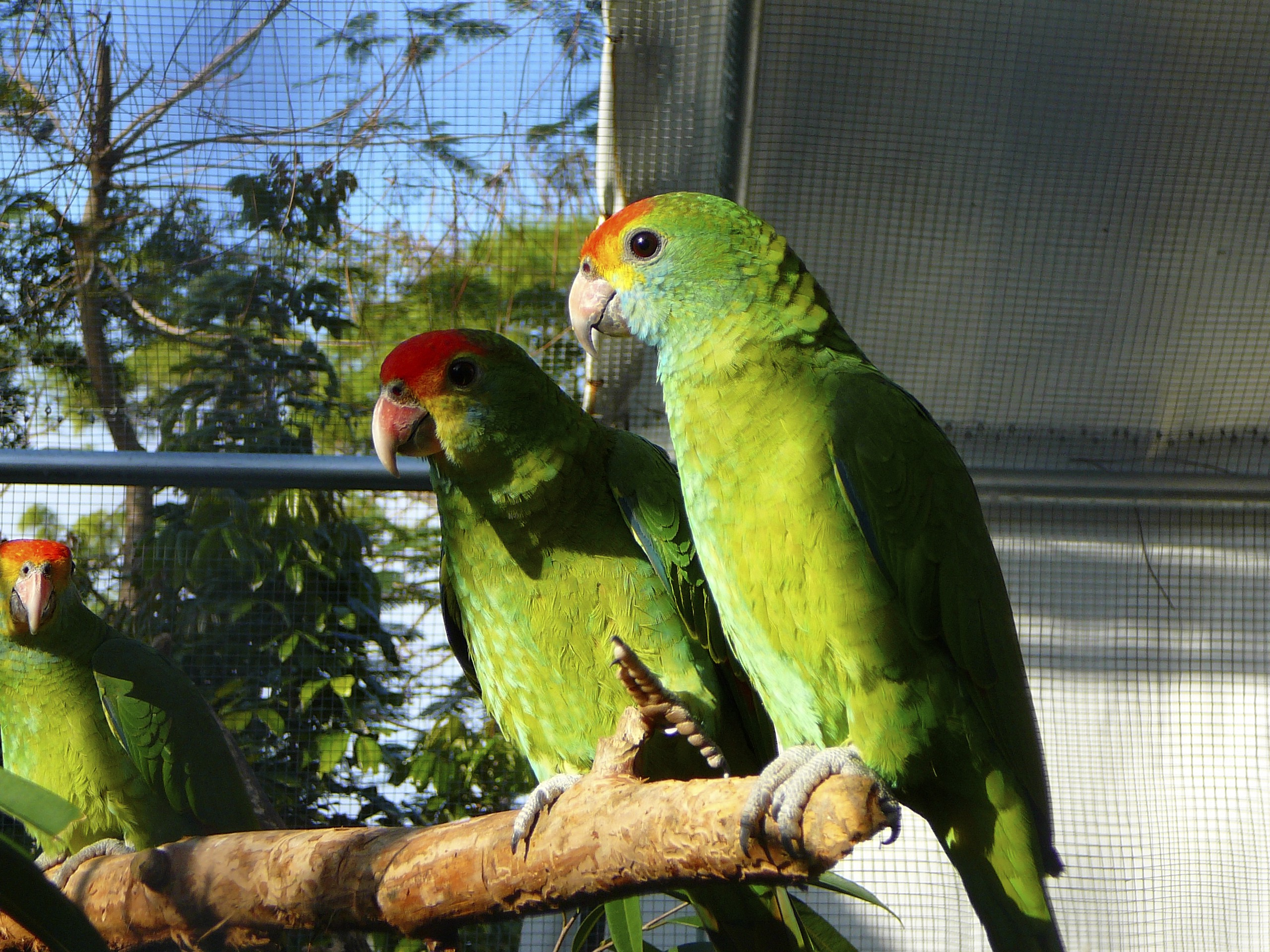 Red-browed Amazon (Amazona rhodocorytha) in a zoo.